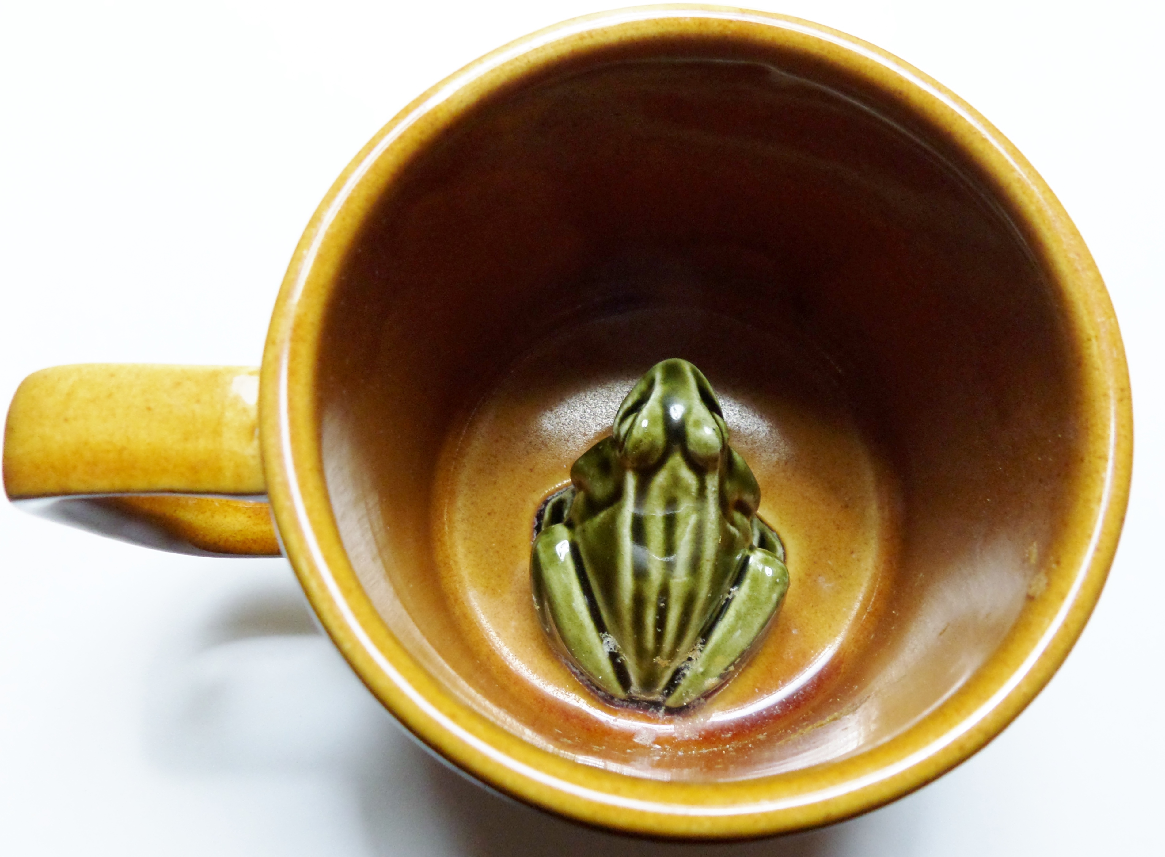 A modern example of a Frog, Toad or surprise mug. These were used as rustic jokes in taverns of the 18th and 19th centuries.